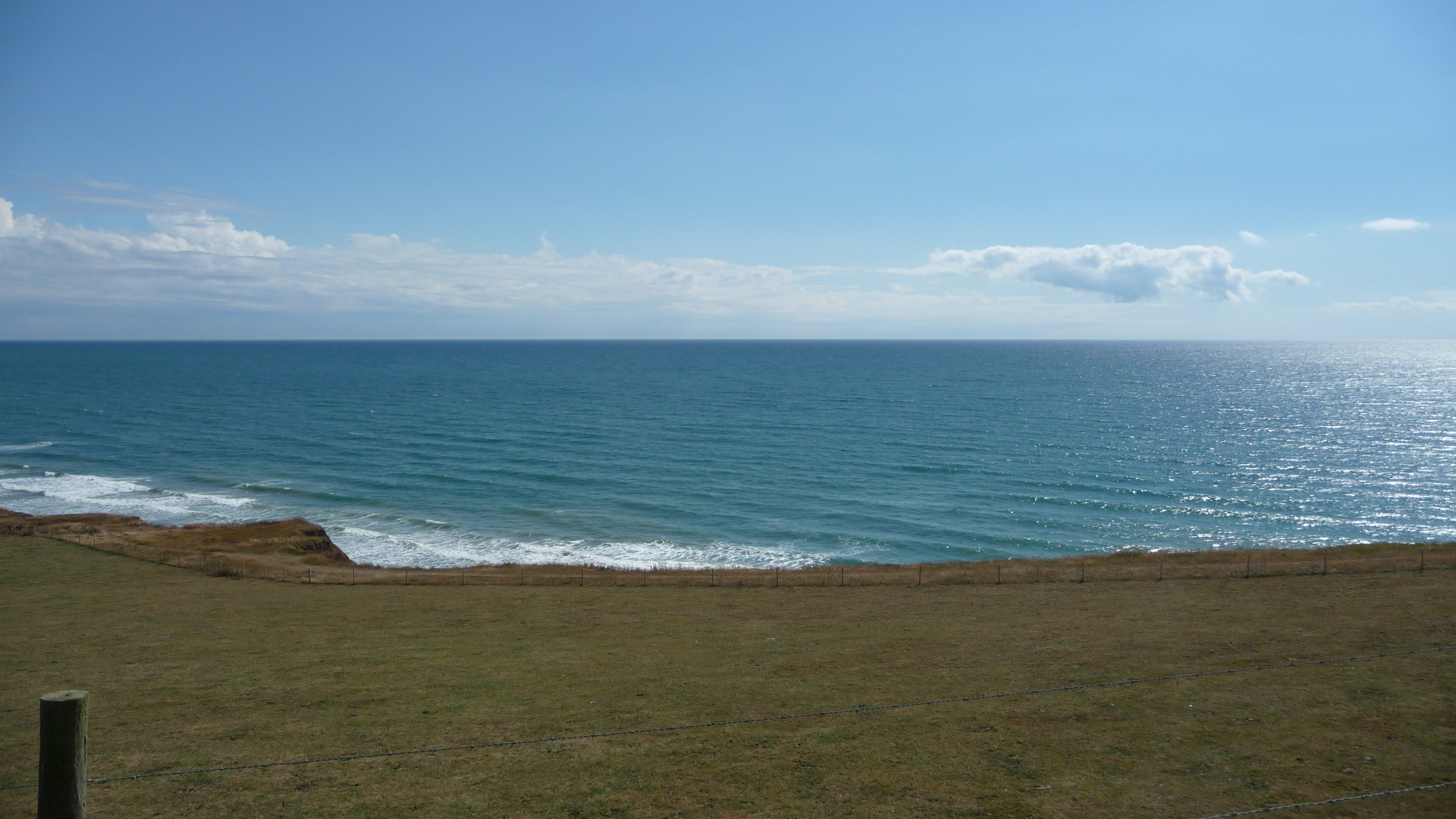 The English Channel, seen from the edge of Afton Down, Isle of Wight, on a lovely August afternoon.